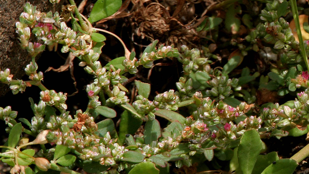 Polygonum plebeium (Syn. P. plebejum) - Small Knotweed • Hindi: मचेची Machechi • Manipuri: তৰাকমনা Tarakmana • Marathi: गुलाबी गोधडी Gulabi Godhadi • Bengali: Chemti sag • Oriya: Muthisag • Gujarati: Zinako Okhrad • Sanskrit: सर्पाक्षी Sarpakshee at Pocharam lake, Andhra Pradesh, India.